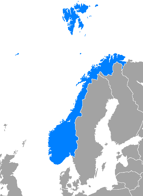 Where it is in majority Where it is not in majority